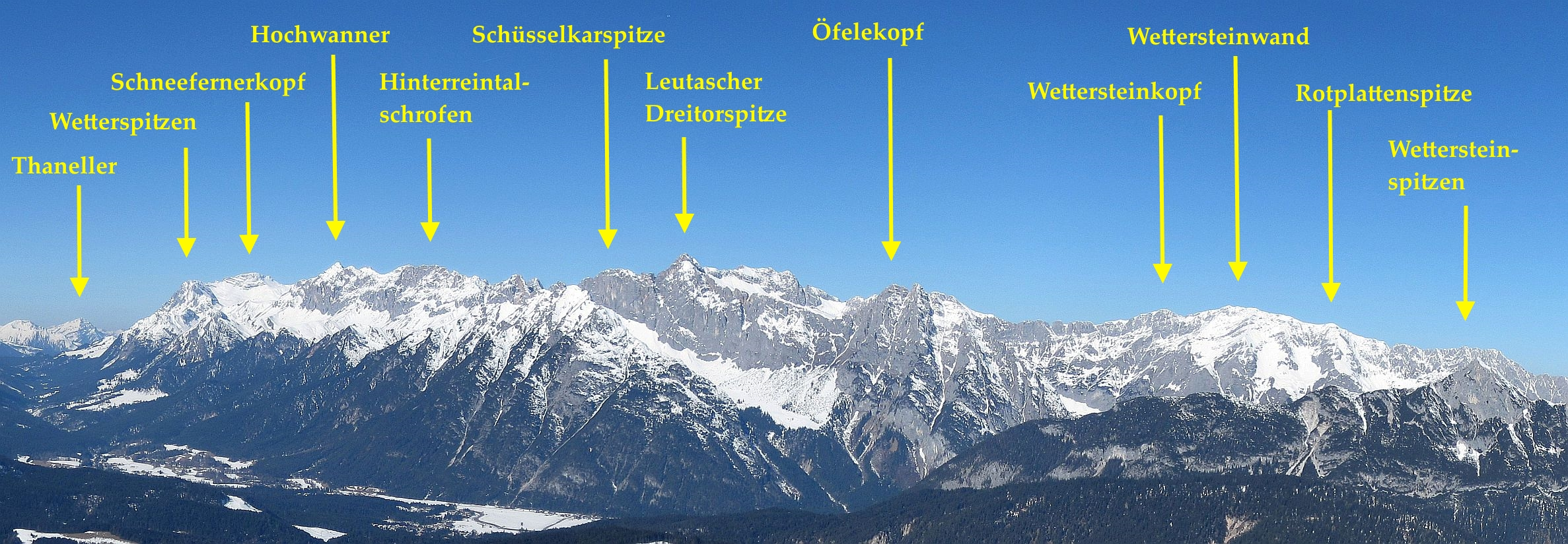 Wettersteingebirge from Southeast, main peaks with names